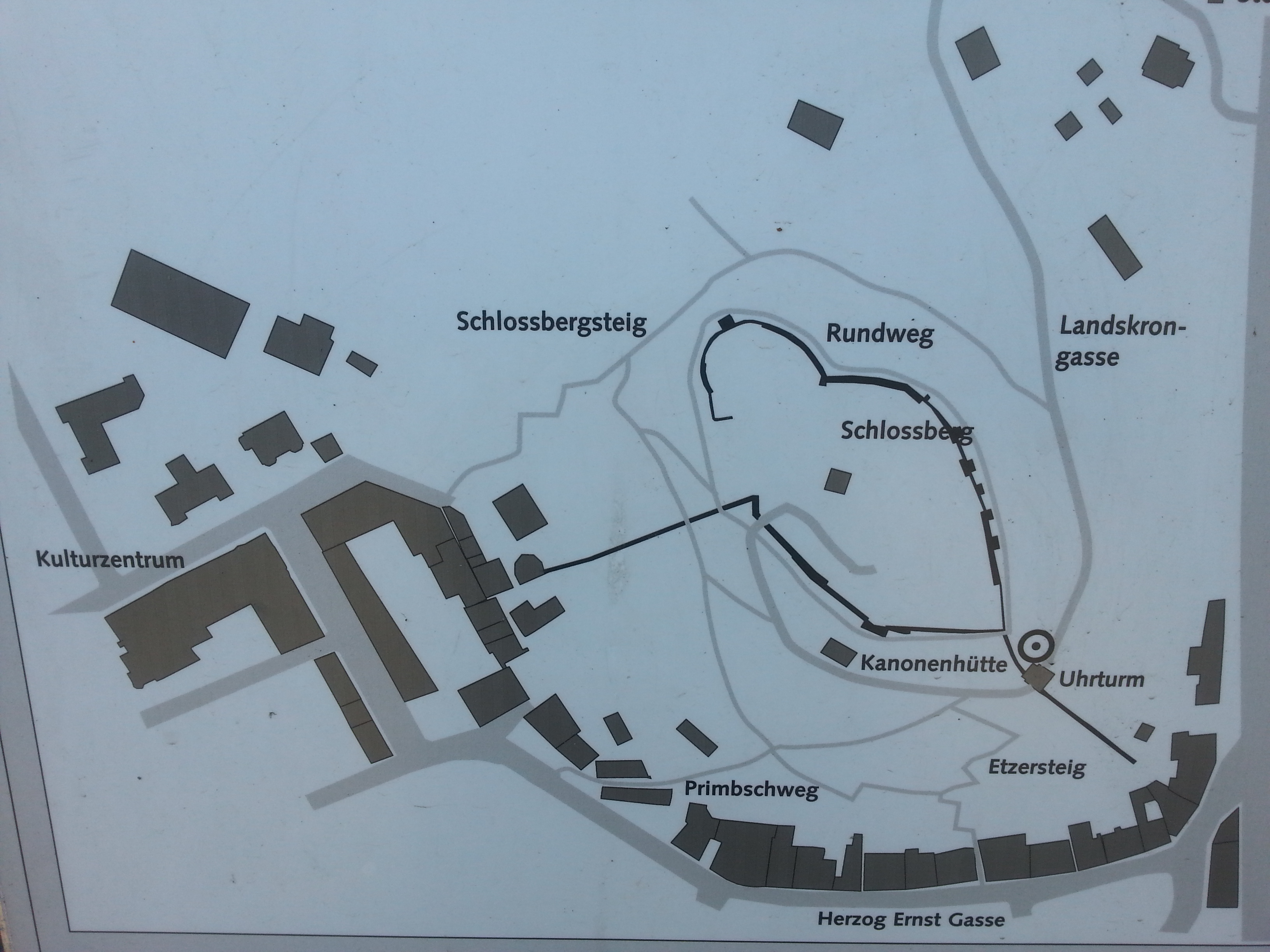 Orientierungsplan Schloßberg (Ruine Landskron), Bruck an der Mur (Österreich).